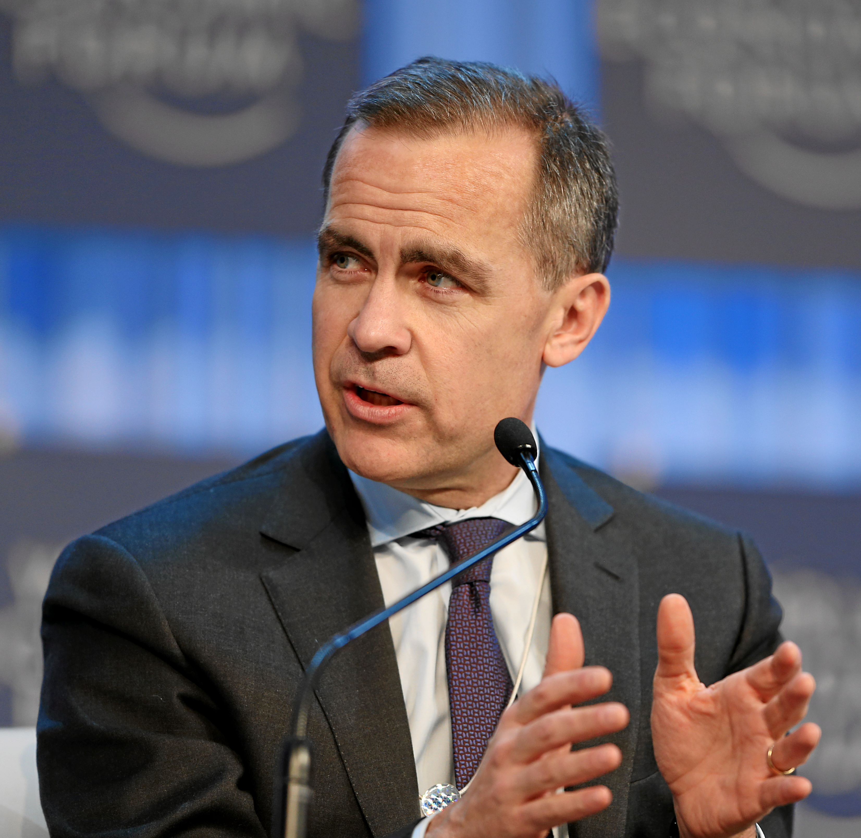 DAVOS/SWITZERLAND, 26JAN13 - Mark J. Carney, Governor of the Bank of Canada is seen during the Session 'The Global Economic Outlook' at the Annual Meeting 2013 of the World Economic Forum in Davos, Switzerland, January 26, 2013.. . Copyright by World Economic Forum. . Moritz Hager